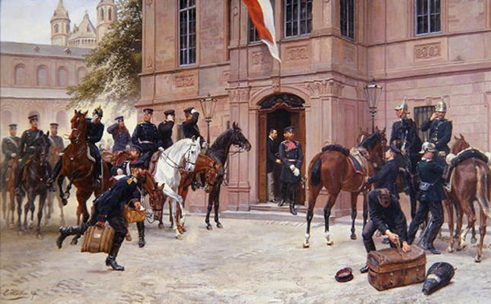 Crown Prince Ludwig IV of Hesse-Darmstadt bidding Cornelius Heyl farewell, before Schlosschen, Worms